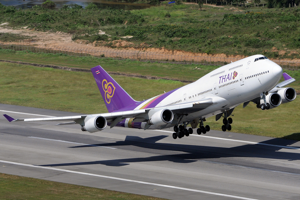 Thai Airways International Boeing 747-400 taking off Phuket International Airport